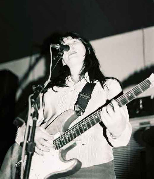 Kelly Deal 6000 Oklahoma City